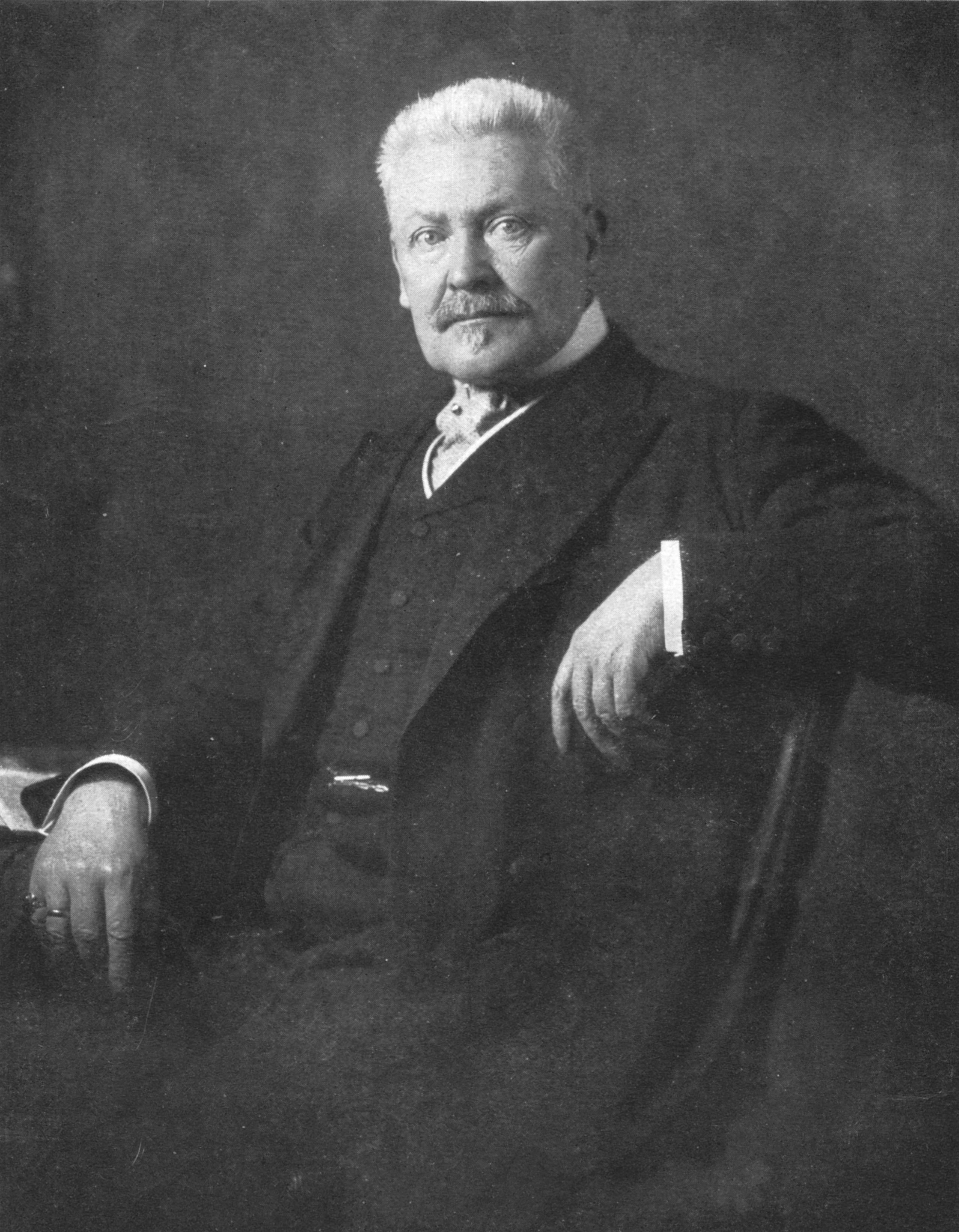 German writer Richard Voß.